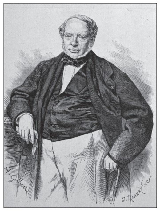 Engraved Portrait of Baron James de Rothschild by A. Gilbert (lithographer ?) & Charles-Jules Robert